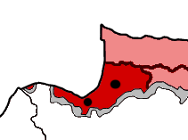 Locator map of the municipalities in the current de facto district of Güzelyurt (Morphou) in Northern Cyprus.